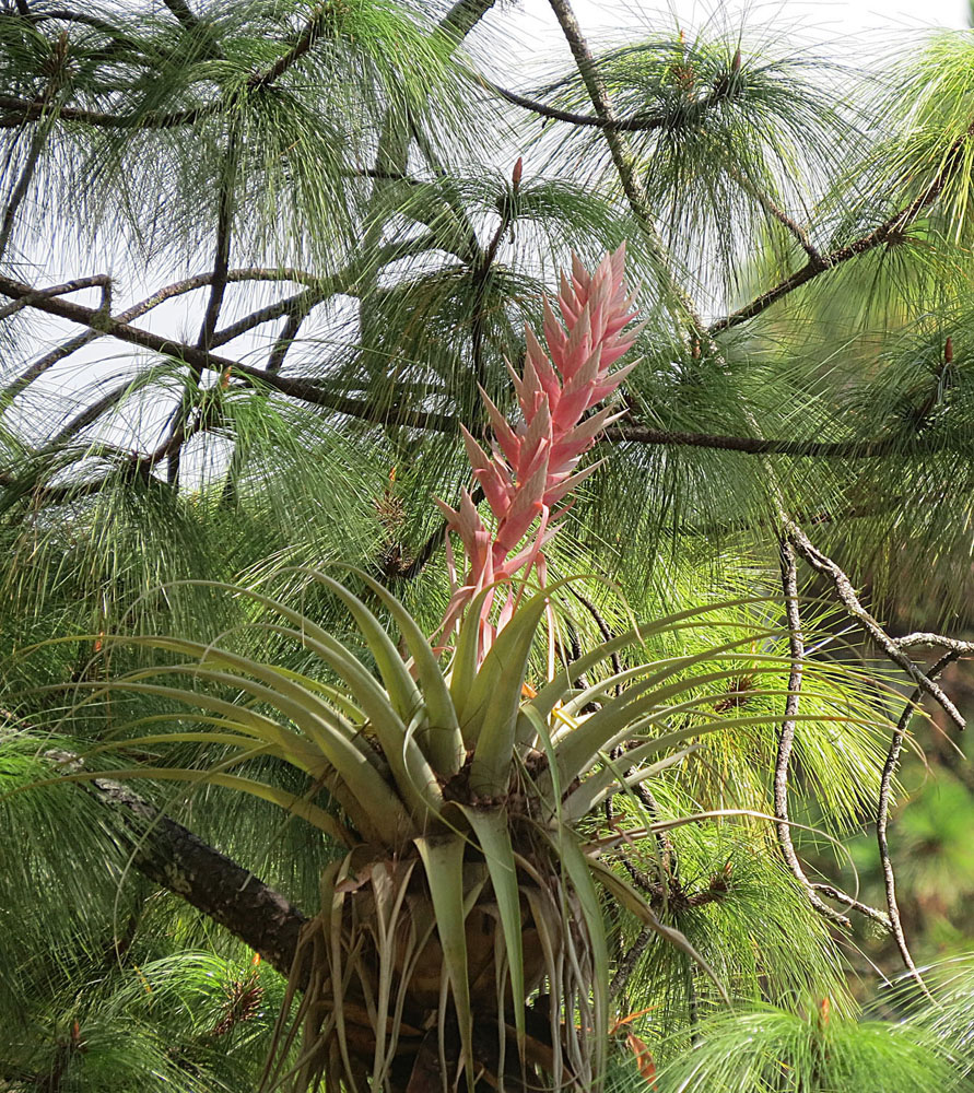 A bromeliad known only from Mexico, here on a Thin-leaf Pine in the Sierra Maihuatlan.